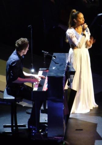 Leona Lewis, Locked Out of Heaven, Royal Albert Hall, 9th May, Glassheart Tour 2013